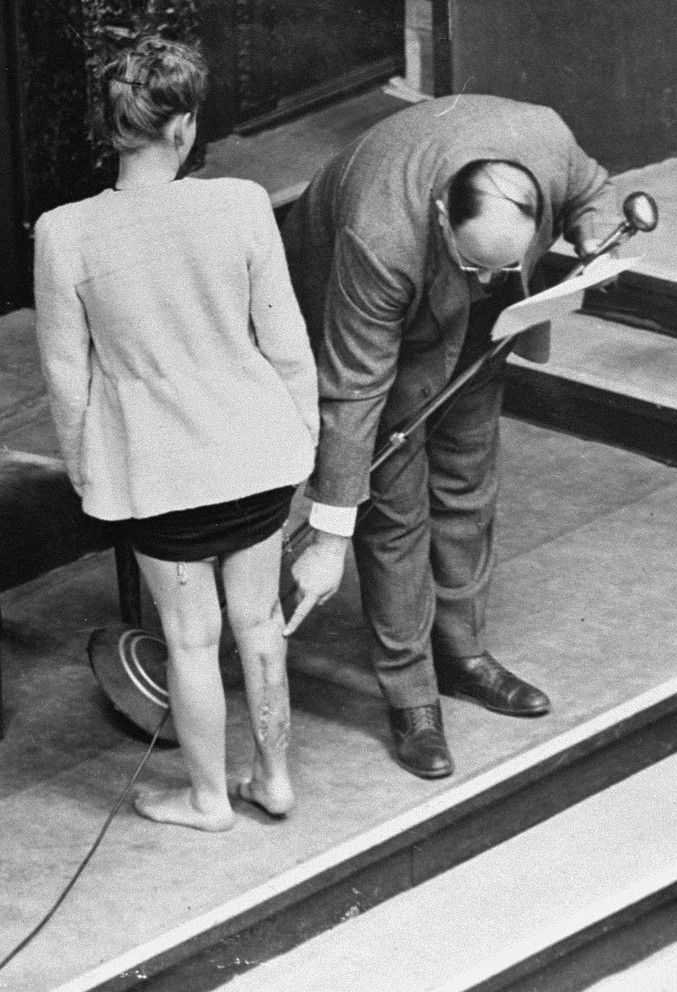 Second person is Leo Alexander, who is explaining medical experiments. Damage was caused by defendants Herta Oberheuser and Fritz Ernst Fischer, on 22 November 1942.